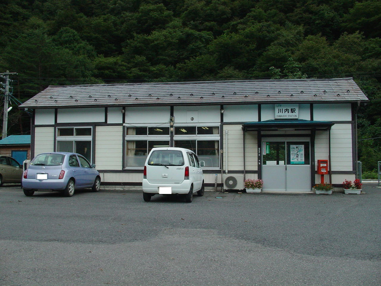 Kawauchi Station on JR East Yamada Line